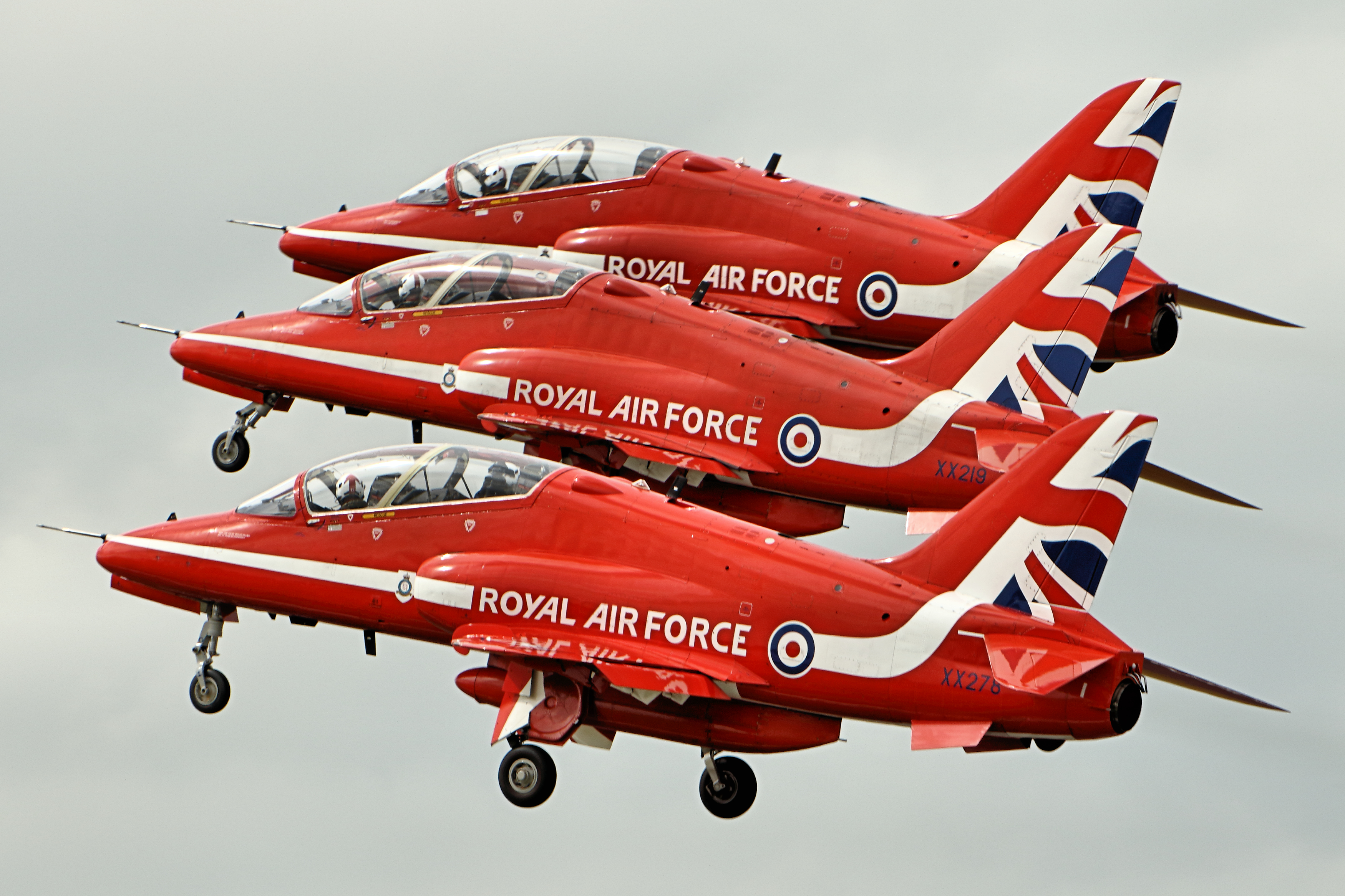 Red Arrows - RIAT 2016